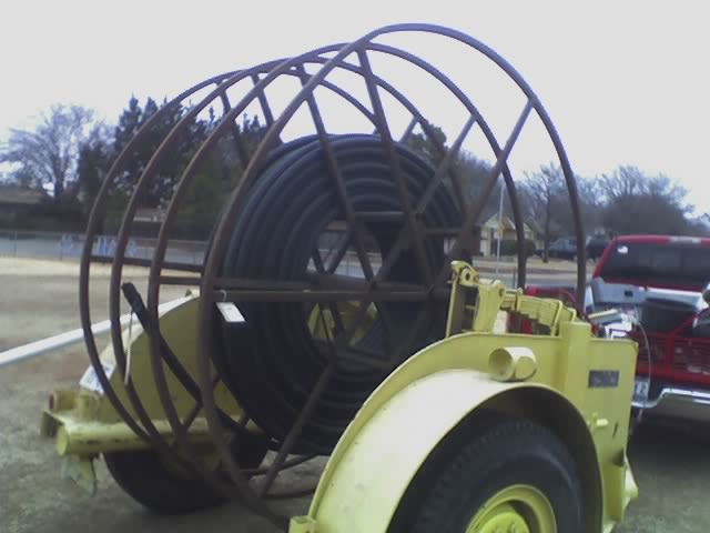 Author: Wesley Fryer